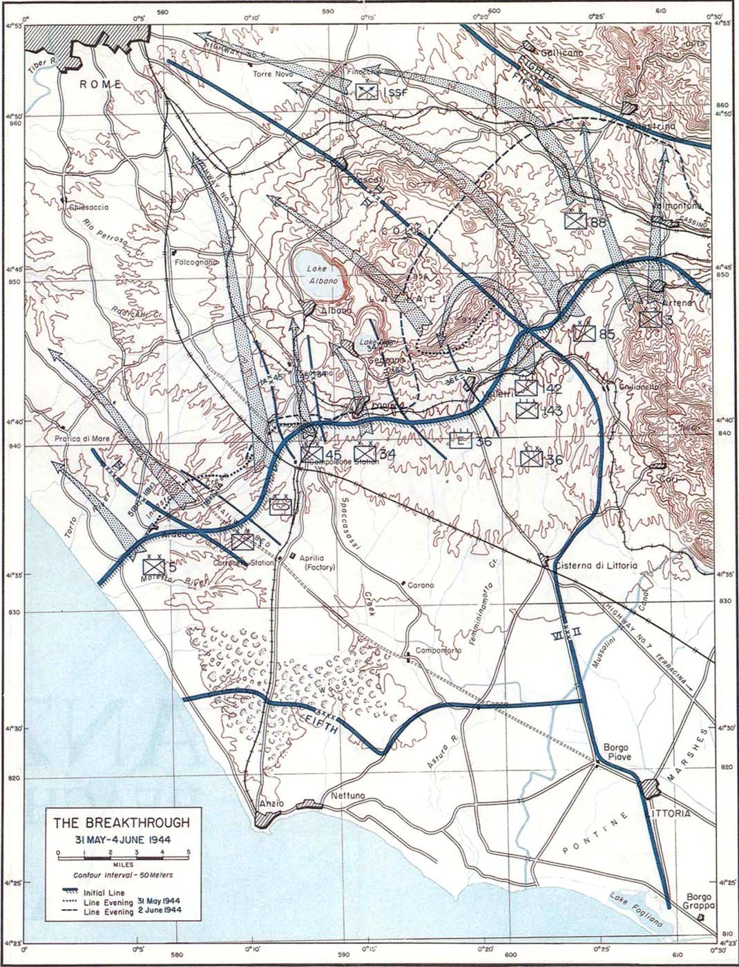 The breakout at Anzio. May/June 1944 — Allies Operation Shingle.